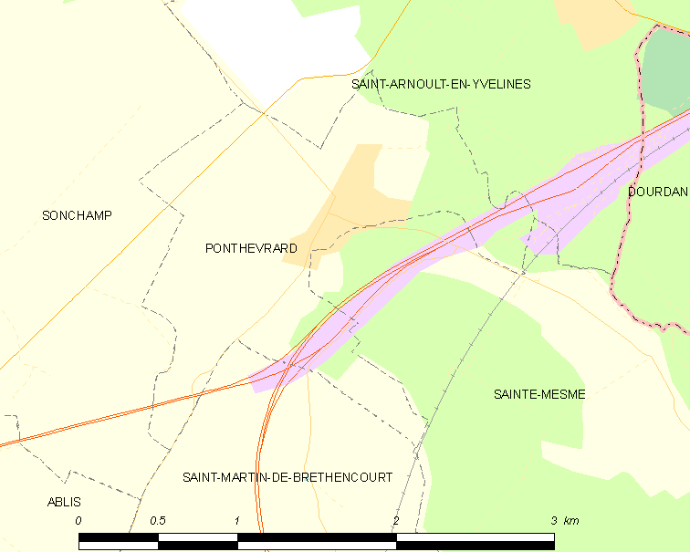 Map of French municipality Ponthévrard